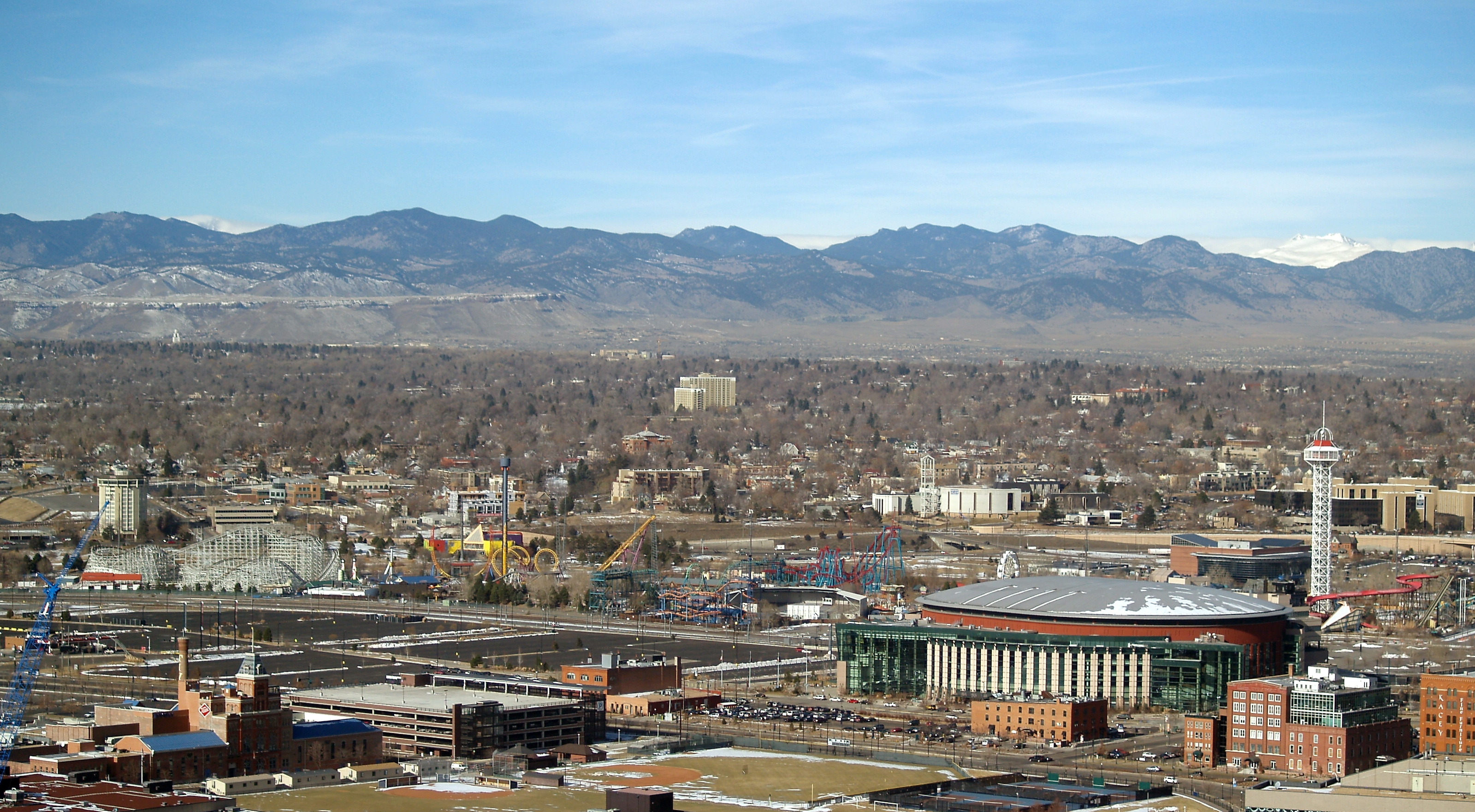 Elitch Gardens in Denver, Colorado, as seen from downtown.